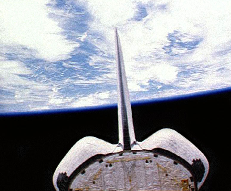 The aft bulkhead of Atlantis' payload bay is seen in this photograph from mission STS-38. The absence of the support equipment for the IUS confirms that the payload of this classified flight was not one of the Magnum satellites.